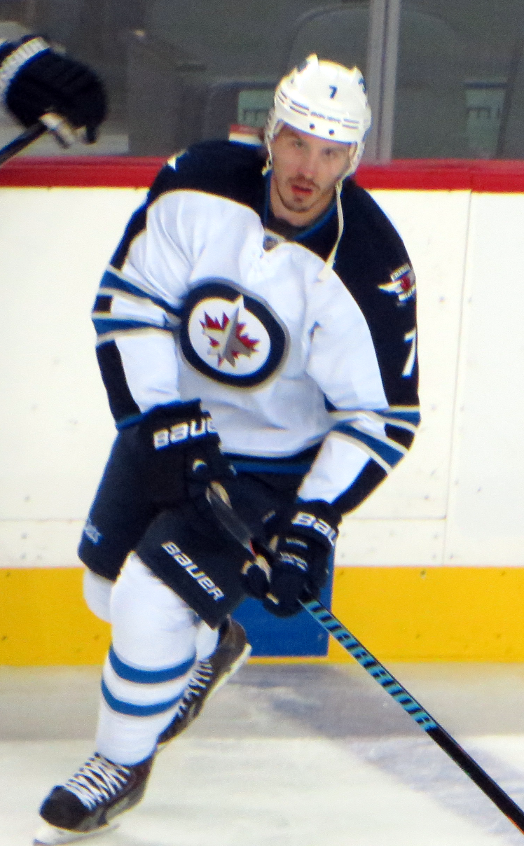 Winnipeg Jets defenceman Keaton Ellerby prior to a National Hockey League pre-season game against Calgary.